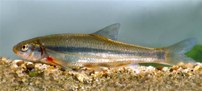 Teleste souffia from Romanian waters